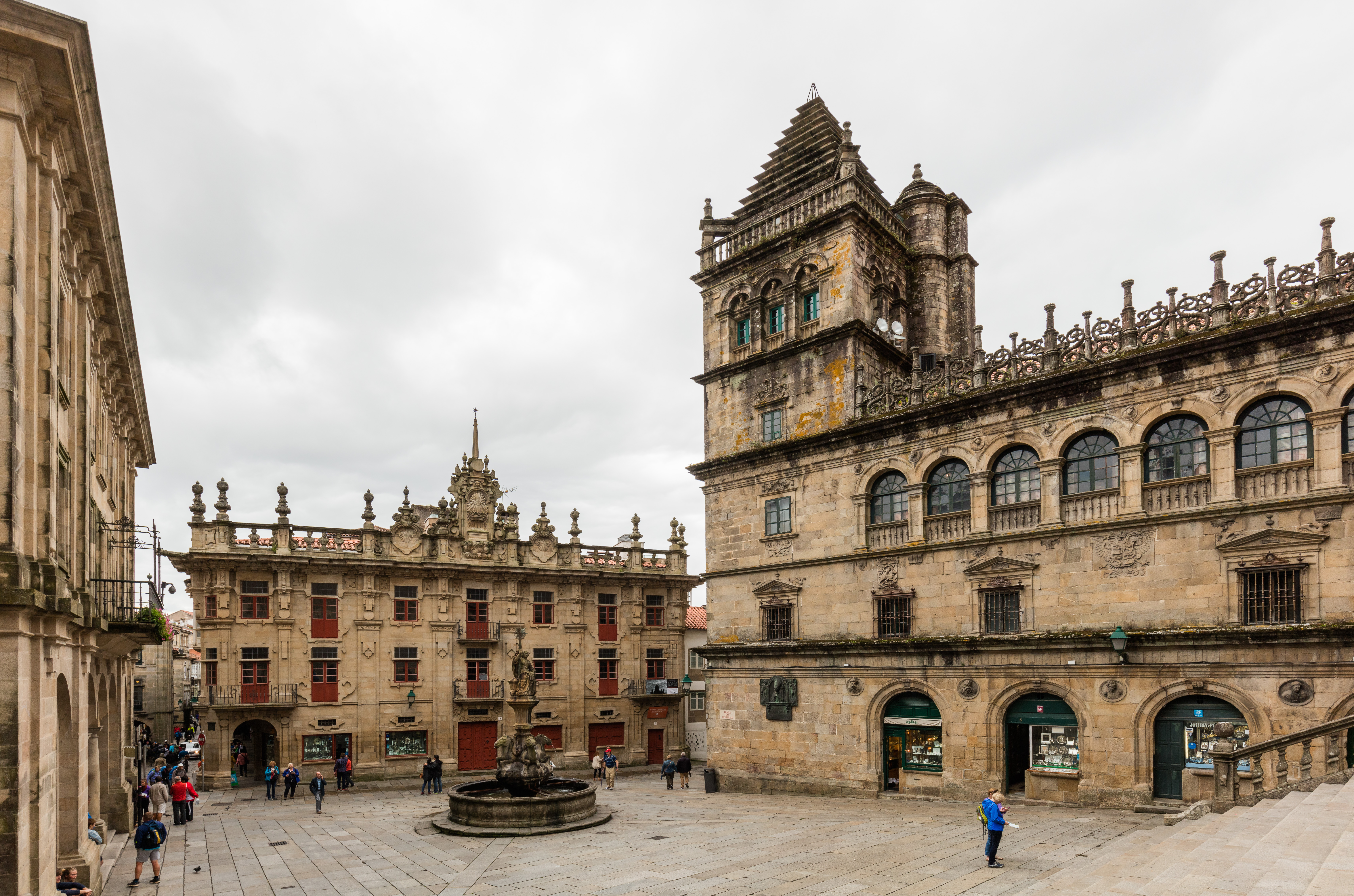 Platerias square, Santiago de Compostela, Spain.